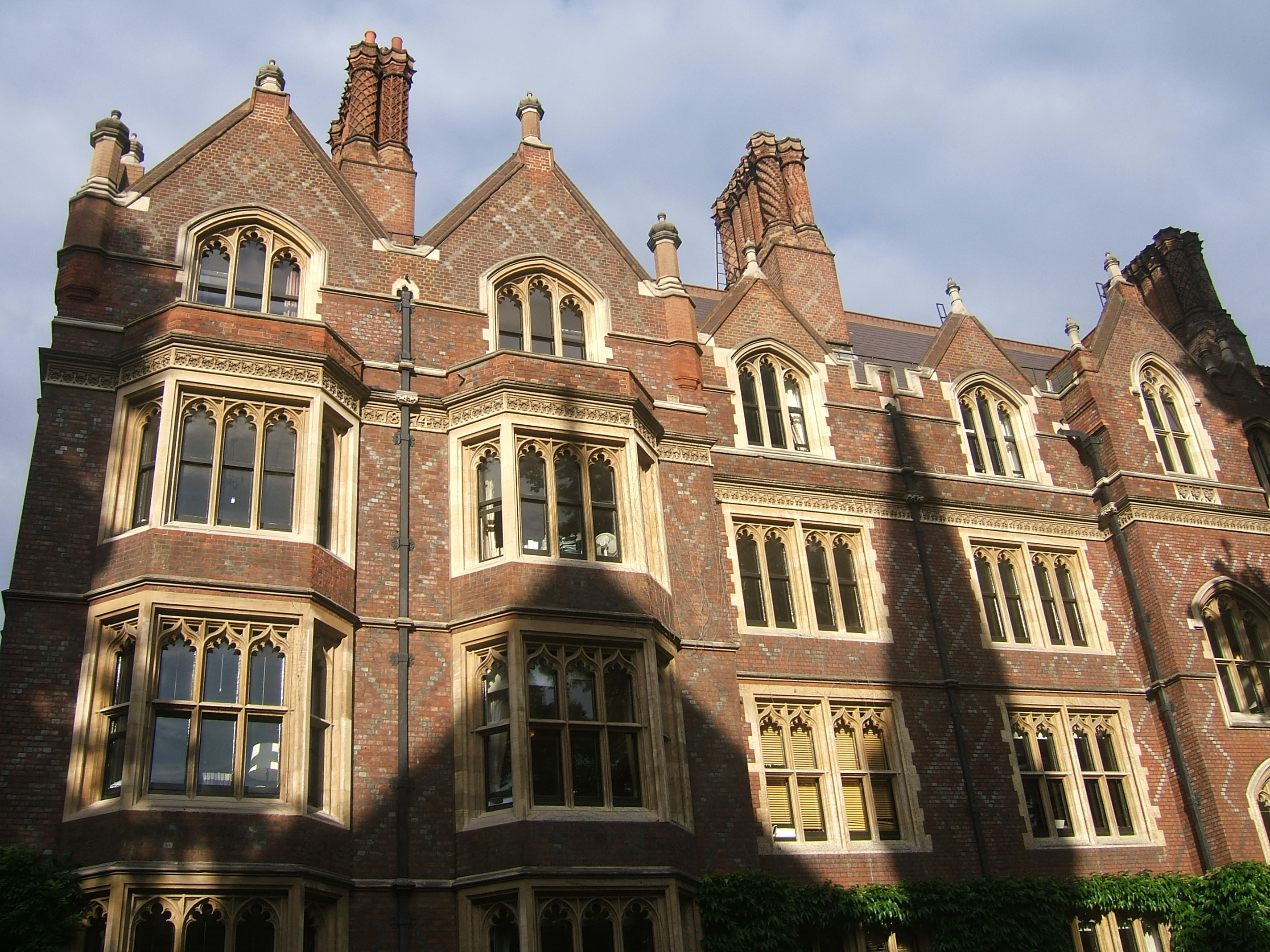 A building at Lincoln's Inn in London.